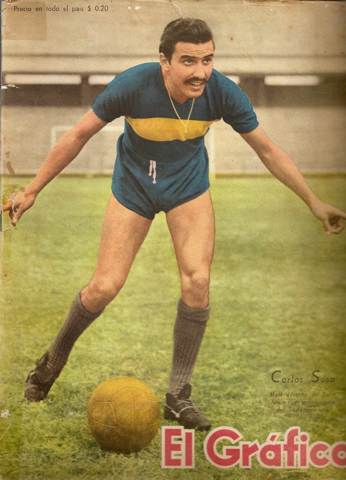 Picture of Carlos Sosa taken in 1944